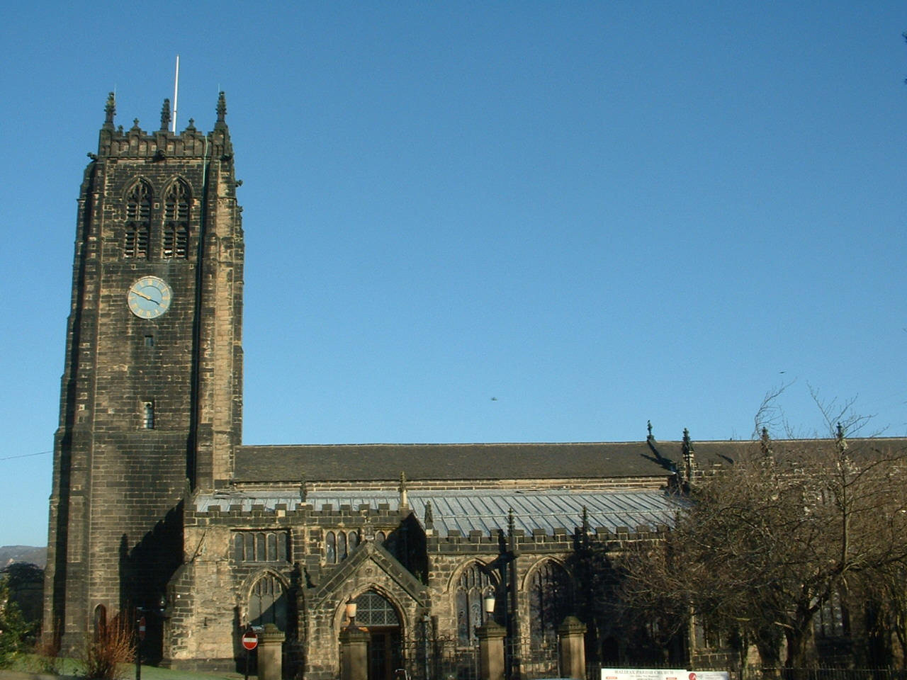 Halifax Parish Church of St John the Baptist near to Halifax, Calderdale, Great Britain, soon to be Halifax Minster.